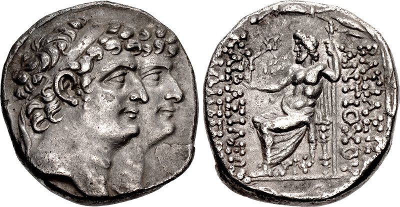 Second Known Triton XXII, Lot: 341. Estimate $20000. Sold for $22500. This amount does not include the buyer’s fee. SELEUKID EMPIRE. Antiochos XI & Philip I. Circa 94-93 BC. AR Tetradrachm (26mm, 15.75 g, 1h). Uncertain mint in Cilicia. Diademed jugate busts right / BAΣIΛEΩ[Σ] ANTIOXOY KAI BAΣIΛEΩΣ ΦIΛIΠΠΟV, Zeus Nikephoros seated left; Φ below throne. SC 2438 (same dies as illustration); HGC 9, 1297 (same dies as illustration); Triton II, lot 484 = Freeman & Sear FPL 5, no. E83 (same dies). Near EF, lightly toned, small repair at edge of obverse. Extremely rare, one of two known for this issue. From the MNL Collection, purchased from Frank Kovacs, 25 August 2011. Upon the death of their older brother, Seleukos VI, in 94 BC, Antiochos XI and Philip I declared themselves joint kings, and sought revenge upon Antiochos X, who they saw as ultimately responsible for their sibling’s murder. At first, the brothers jointly sacked the Cilician city of Mopsos, which had revolted against and subsequently murdered Seleukos and his lieutenants. Afterward, Philip remained in Cilicia while Antiochos XI led a force east to confront Antiochos X in Syria. Although he was initially successful, capturing Antioch for a brief moment, Antiochos XI was soon forced to flee, and he drowned while attempting to cross the Orontes. At the same time, Philip I had been enroute to assist his brother, and thereafter carried on the fight. The very short joint reign of the brothers is only known from five issues of tetradrachms, all struck in Cilicia. Each feature the same portraiture and reverse type, but different control marks. Three of the issues were likely struck at Tarsos, while the other two, which includes the present coin, were struck at a presently unknown mint. All are extremely rare today.